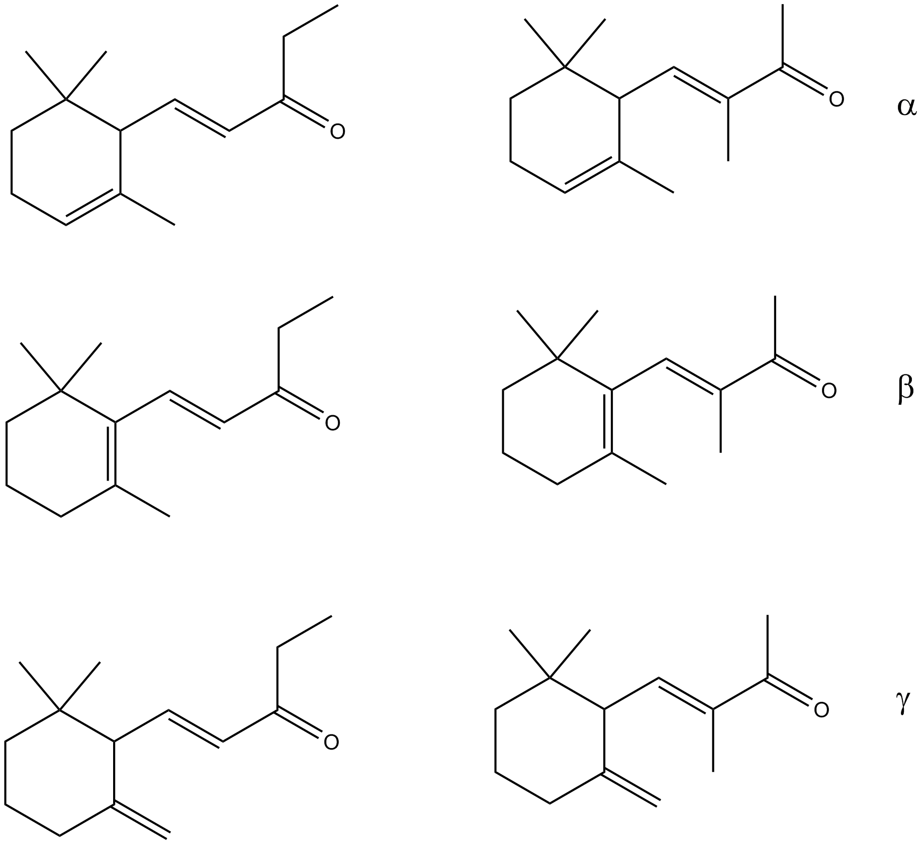 six methylionone isomers (not counting cis-trans-isomers): normal left, iso right